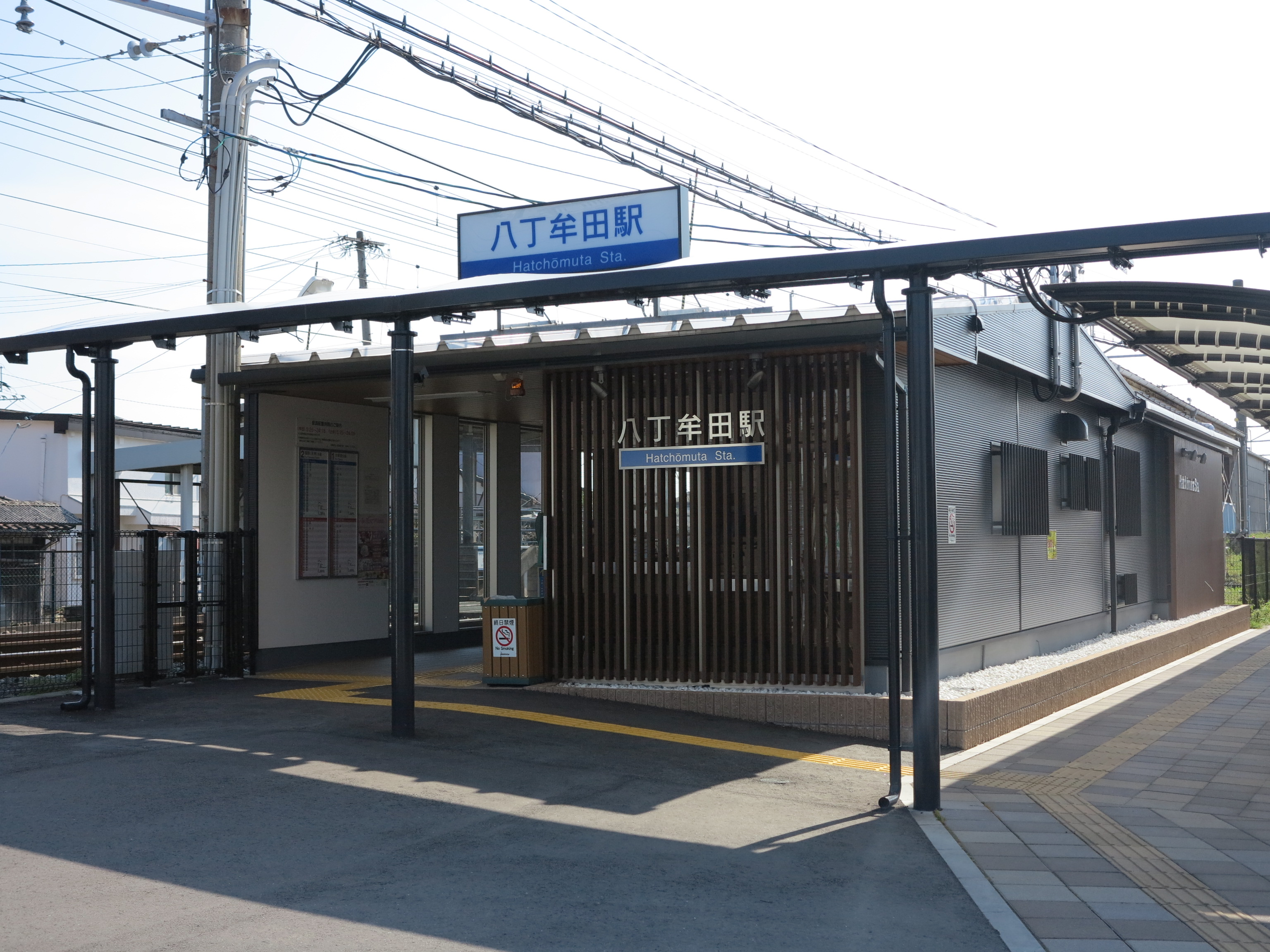 Hatchomuta Station in Fukuoka Prefecture, Japan